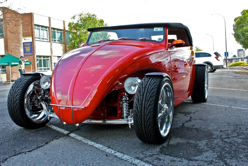 Red Volkswagen hot rod that took seven years to build. Leather interior and suicide doors is very different from the beetle it is based upon.